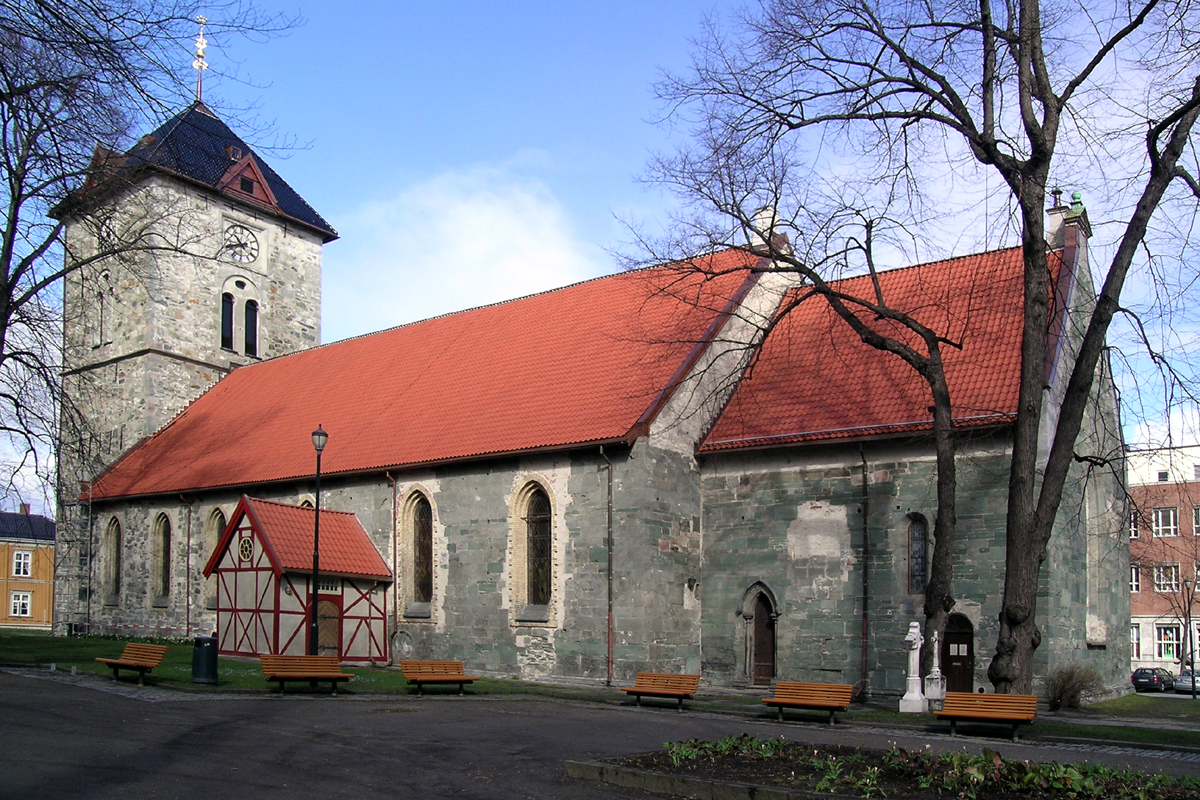 Vår Frue Kirke (Our Lady Church), Trondheim, Norway. Built mid-12th C. Rebuilt and expanded in the 1690s; again in 1742. Seen from SE.